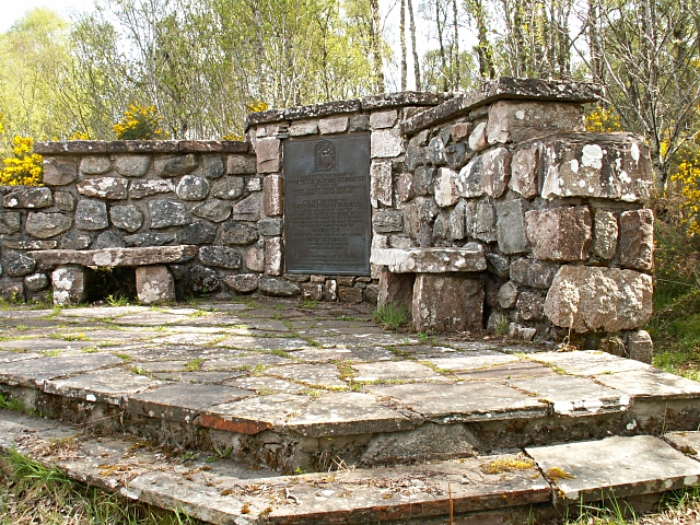 Clan MacBain/Bean monument. Clan MacBain/Bean monument above Kinchyle near Dores on the South shore of Loch Ness. These former clan lands were held by Feu from Cawdor. The site was opened in 1961.